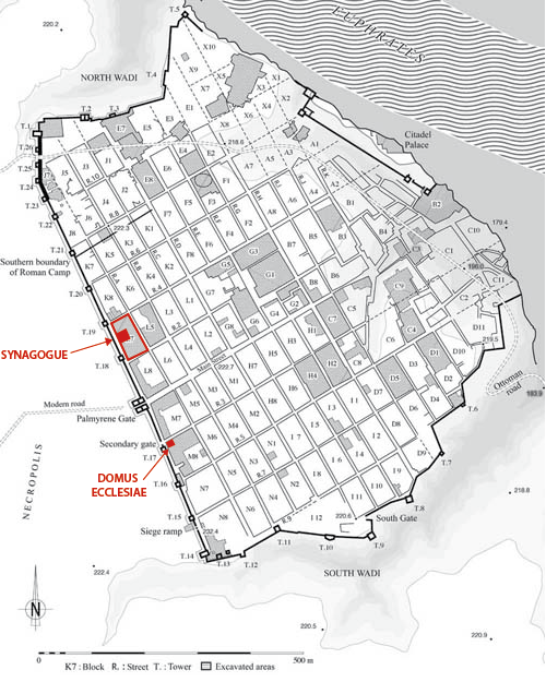 Location of the synagogue and domus ecclesiae in Dura Europos.